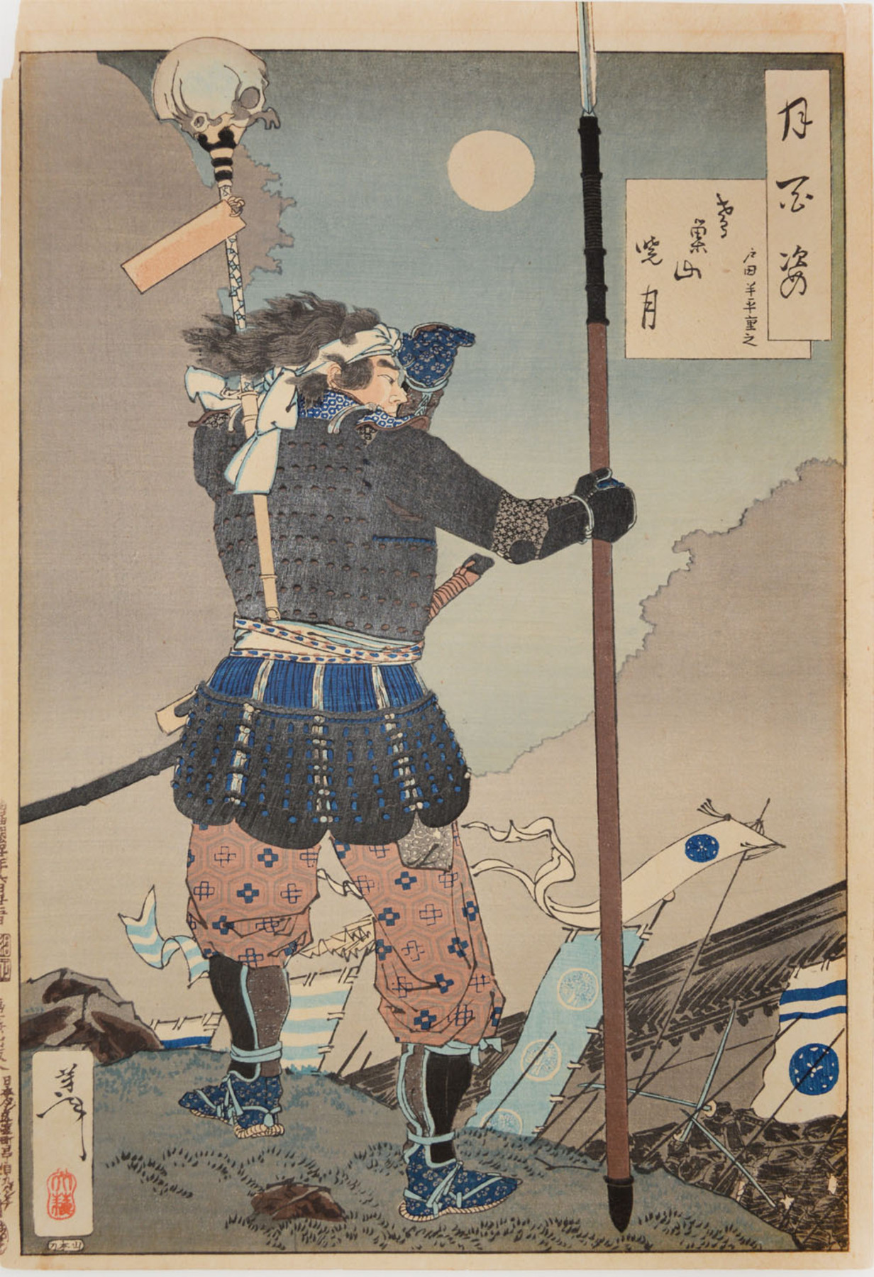 General launching his troops to assault Nagashino Castle in 1575. Print from the Tsuki hyaskushi series ("100 aspects of the moon") by Taiso Yoshitoshi, 1887